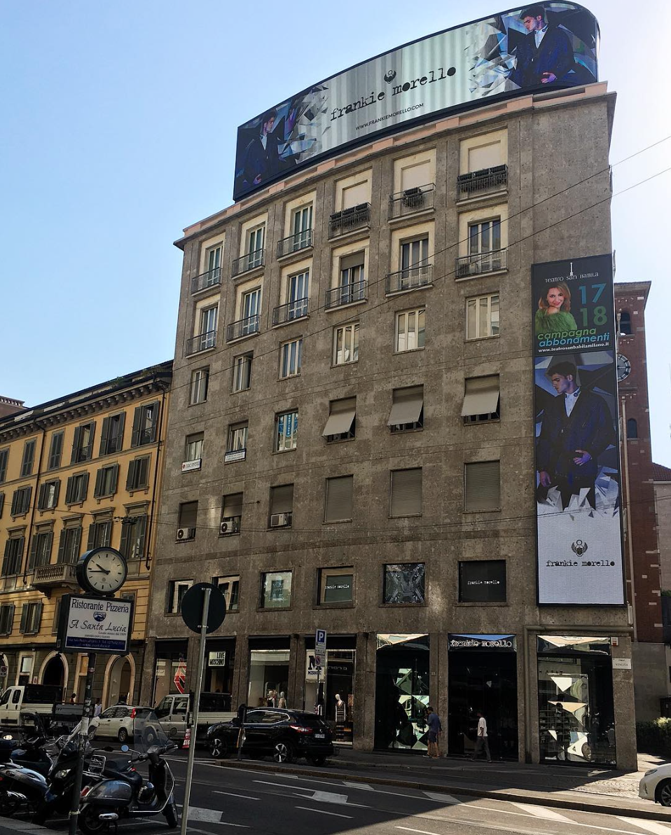 Foto per strada del palazzo in Piazza San Babila Milano